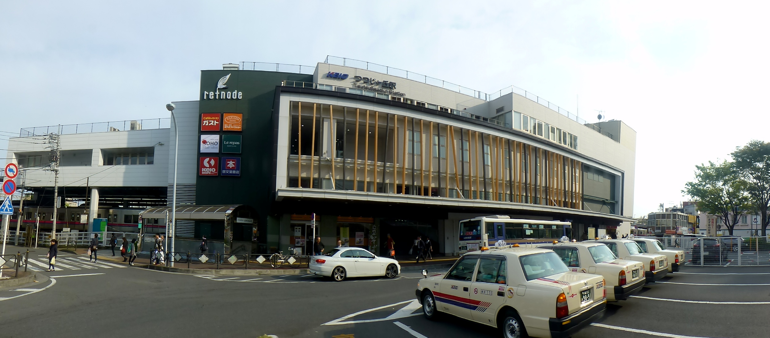 Tsutsujigaoka Station north exit (つつじヶ丘駅の北口)